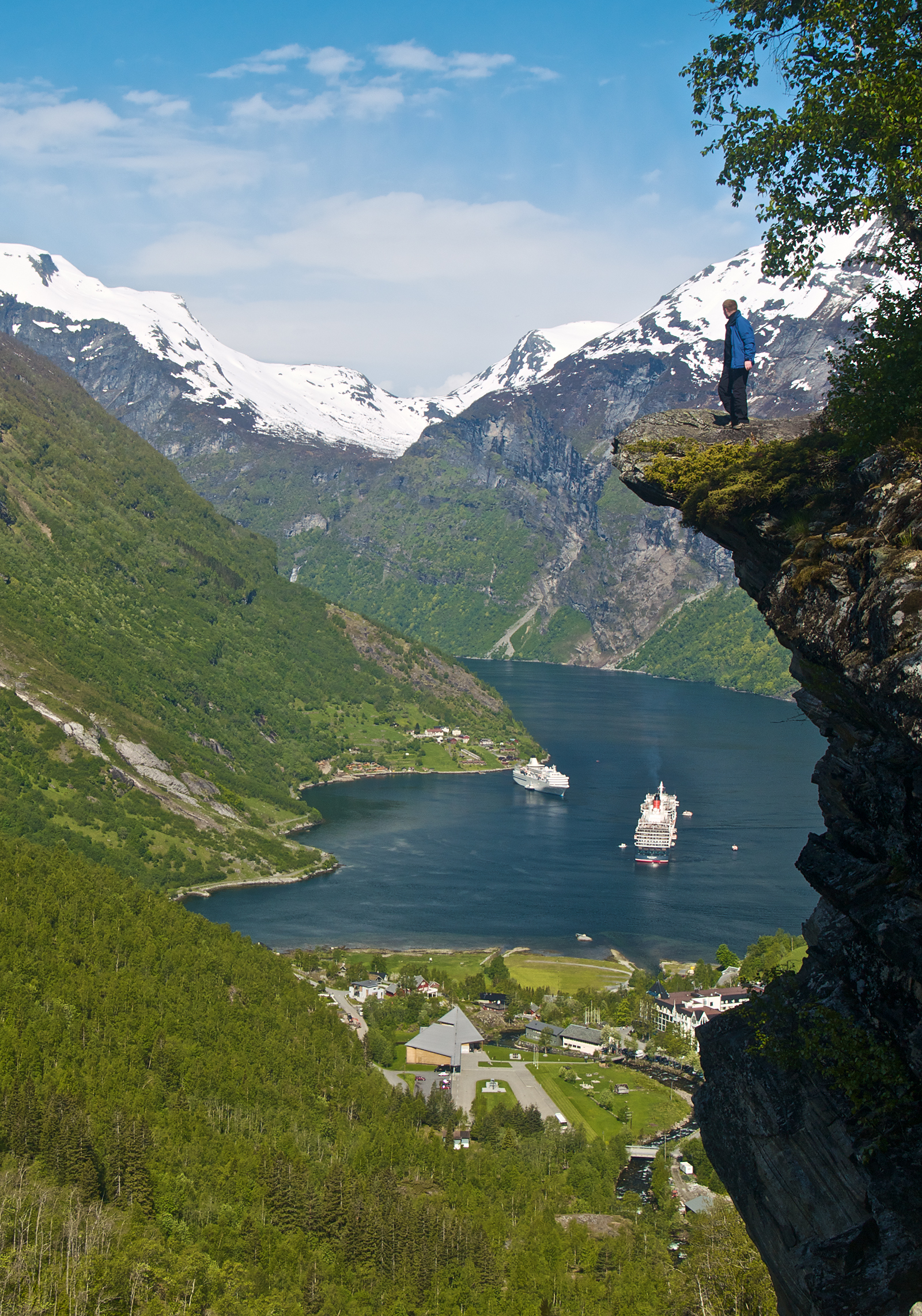 View on Geiranger in the Geirangerfjord, Norway.